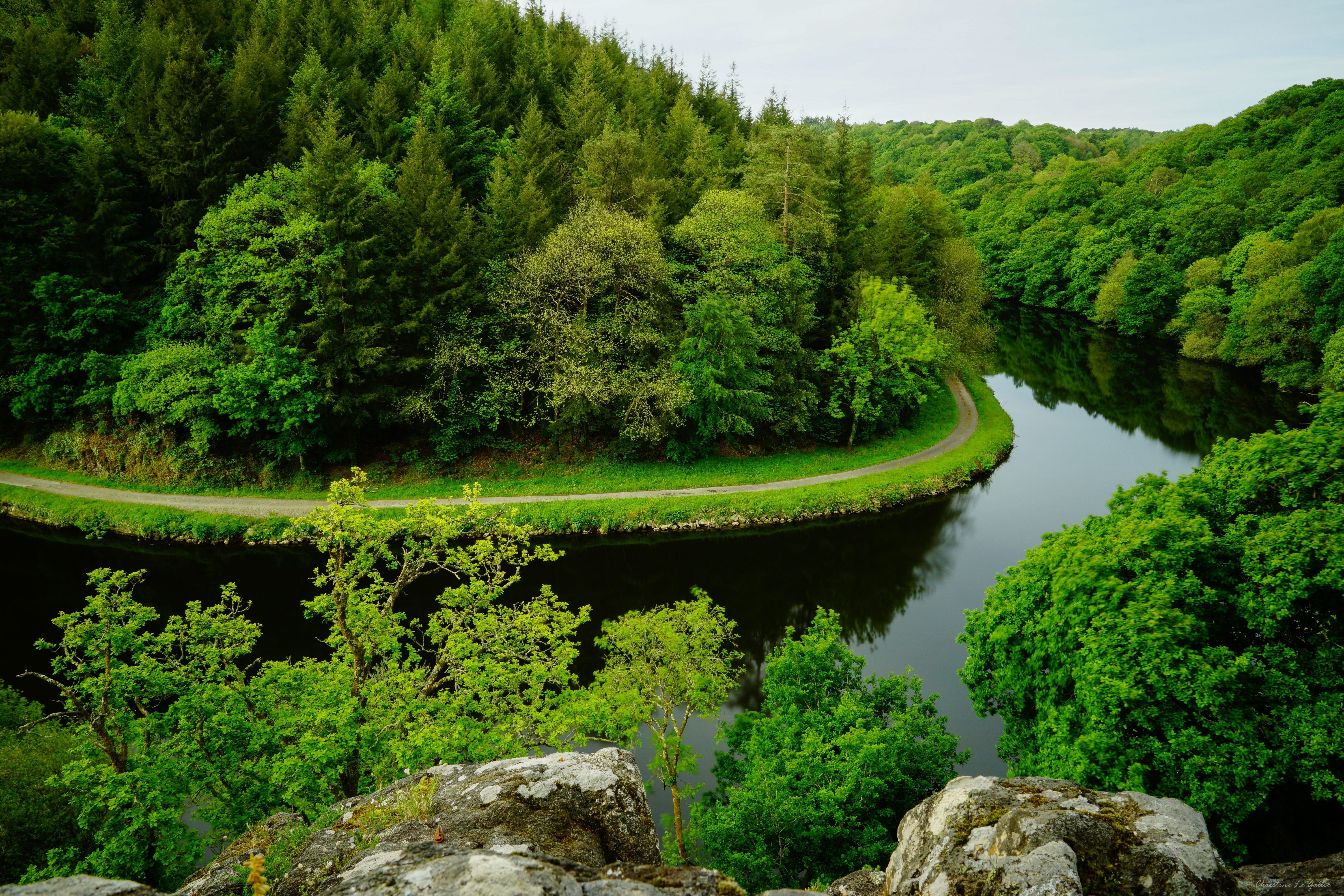 View of Blavet valley in Languidic (Morbihan, Brittany, France).